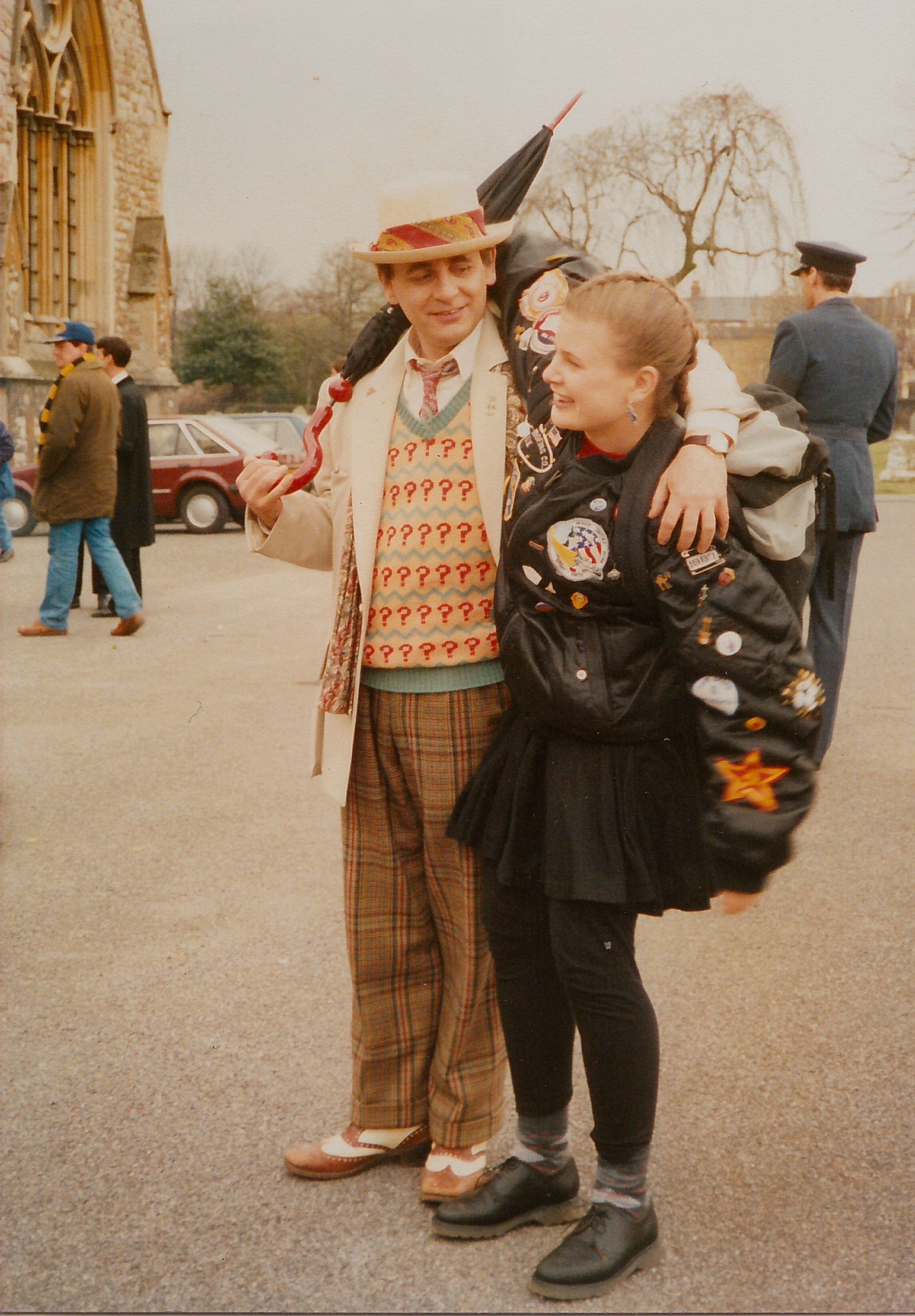 Sylvester McCoy and Sophie Aldred on location for Remembrance of the Daleks